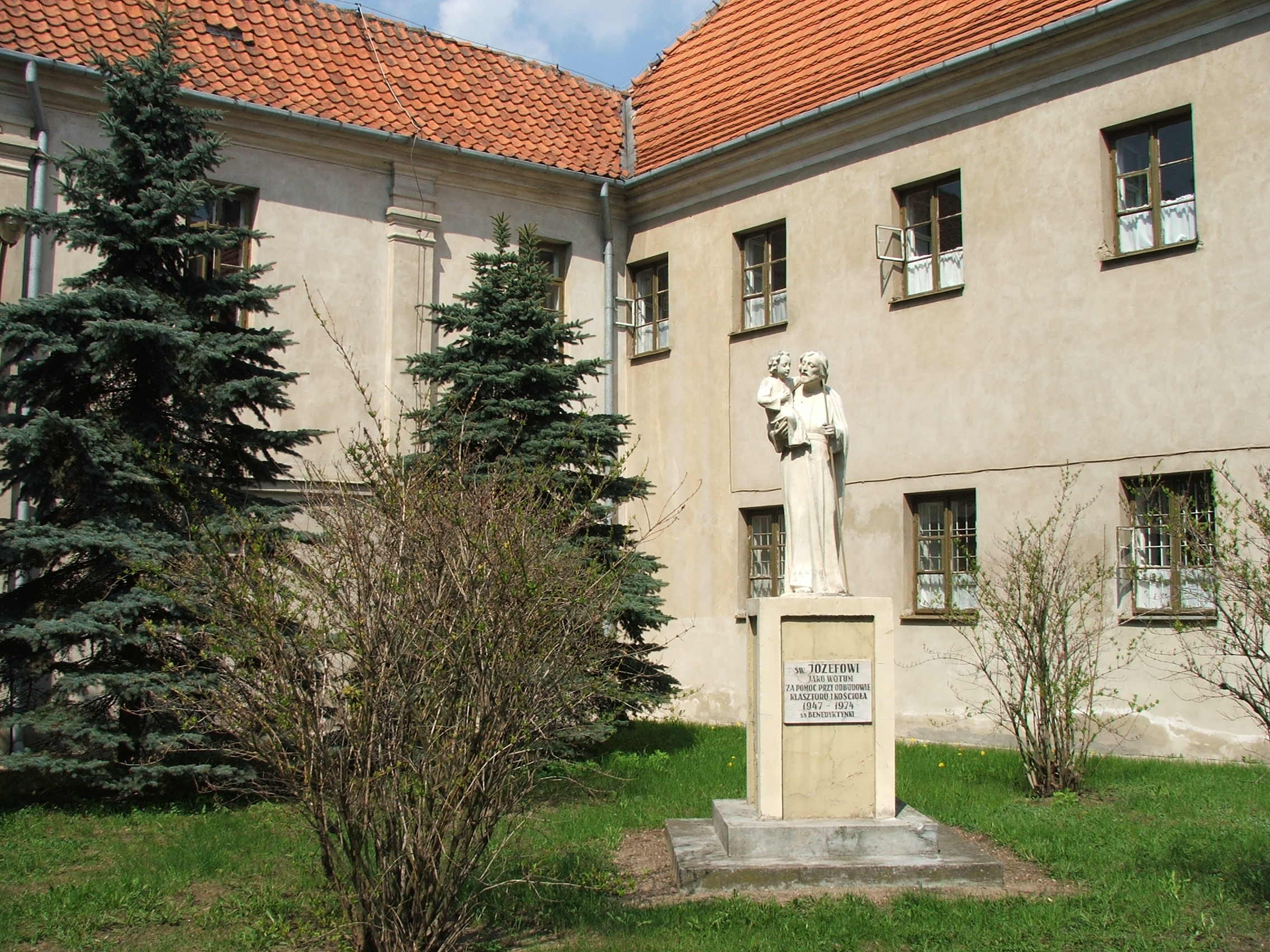 Benedictine monastery in Sierpc, Poland.